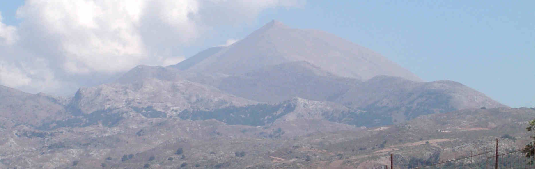 photo prise par moi-même en août 2005 (PS: sorry for typo in file name: should be versant of course)